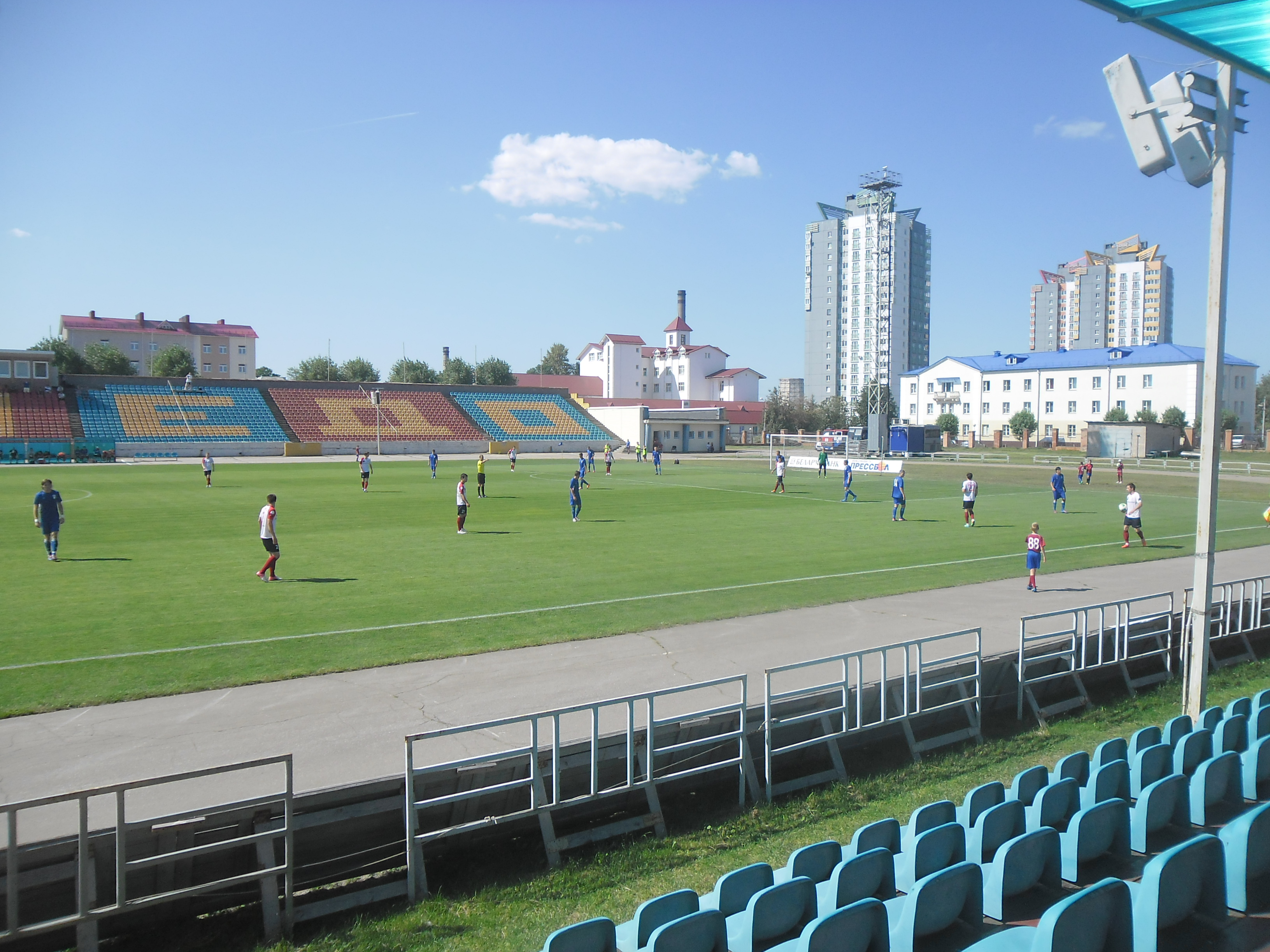 Football match FK Miensk - Zorka-BDU in Tarpeda stadium